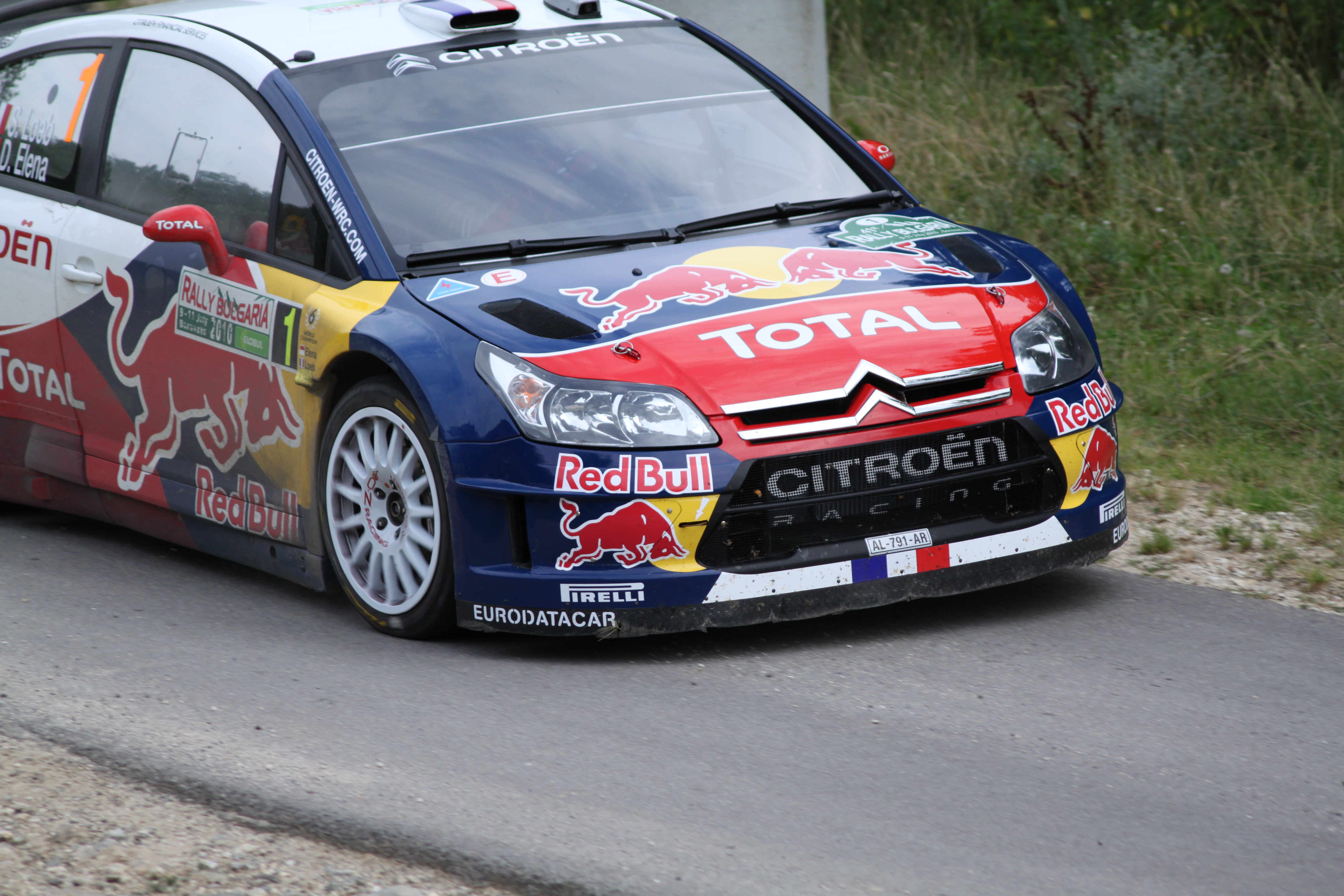 Sebastien Loeb in SS7 "Lubnitsa" - Rally Bulgaria 2010